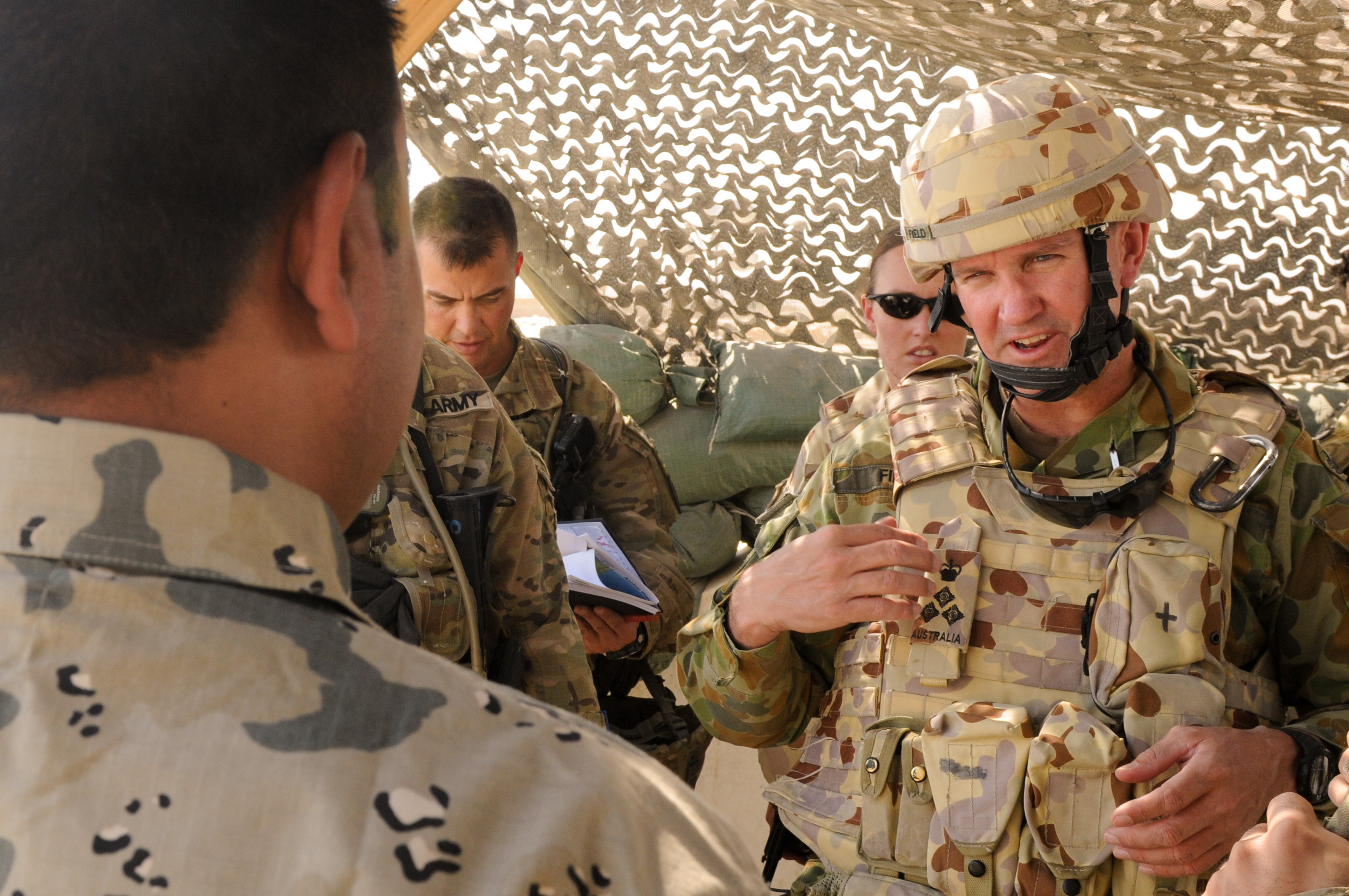 Australian Brig. Gen. Chris Field, Regional Command – South deputy commanding general in charge of force development, visited the Weesh Border Crossing in Spin Boldak district, Kandahar province, Afghanistan, Oct. 19, to assess the security situation of the Afghanistan border with Pakistan. Lt. Col. David Jones, commander of the 2nd Squadron, 38th Regiment, 504th Battlefield Surveillance Brigade, and Afghan Border Police leaders spoke with Field about the operations Bravo Company, 2-38 and local ABP conduct at the crossing in an attempt to minimize the flow of contraband into Afghanistan.